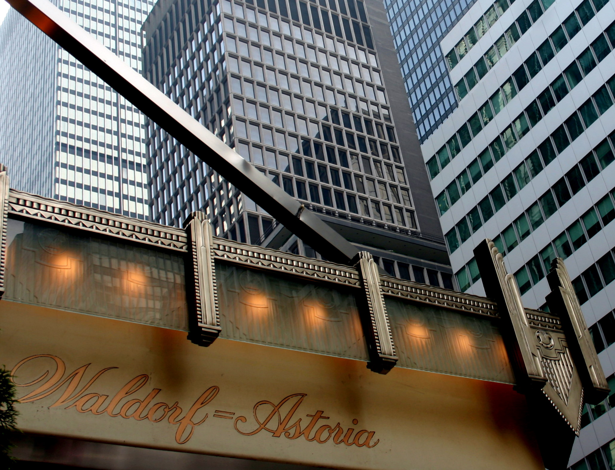 Logo of The Waldorf=Astoria Collection